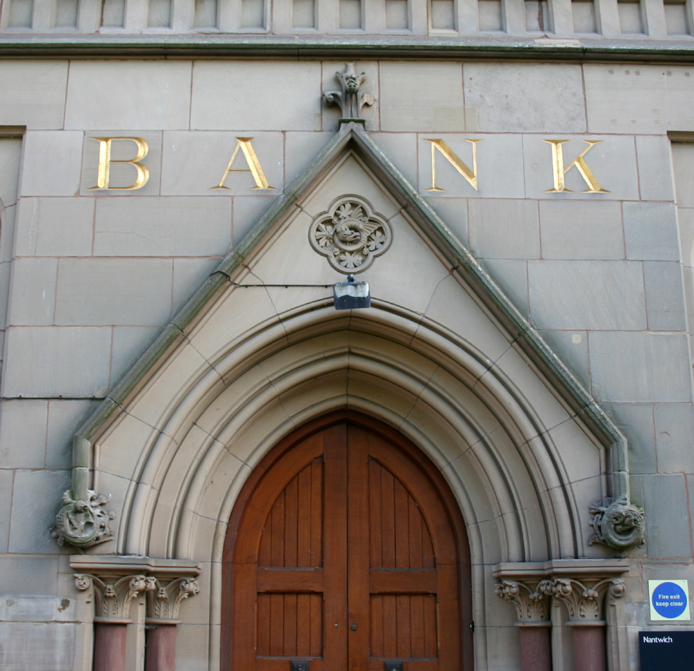 Detail of Barclays Bank, 11 Churchyard Side, Nantwich, Cheshire